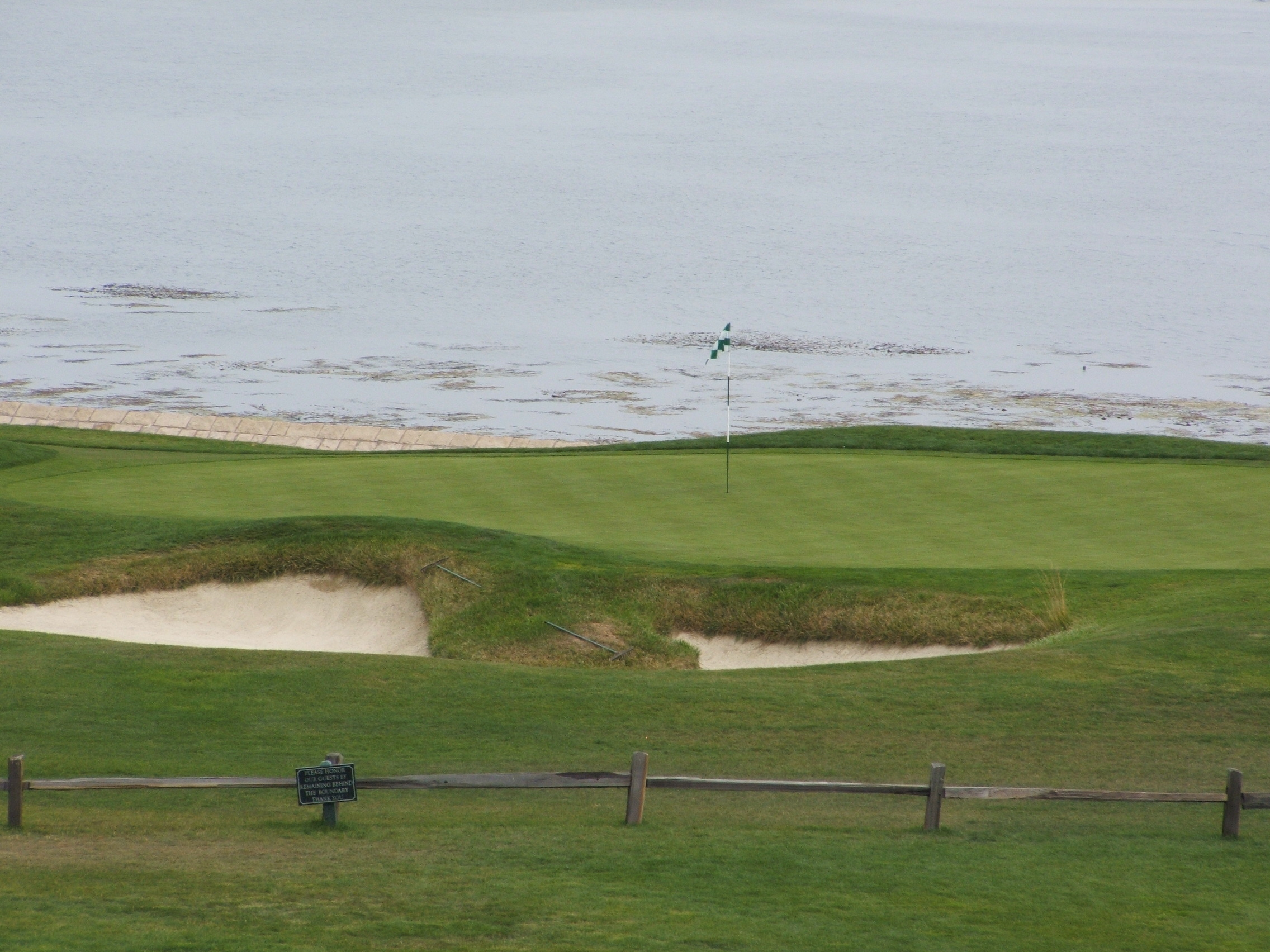 18th green; taken from the "Ocean View," the back of The Lodge at Pebble Beach